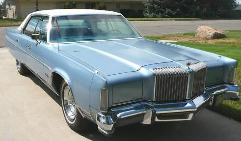 1977 Chrysler New Yorker Brougham sedan